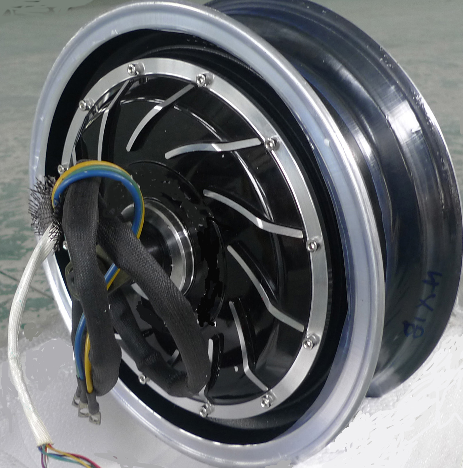 motorcycle hub motor